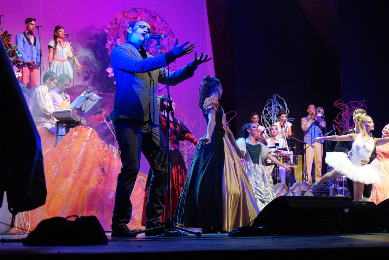 Krisis Group 2015 - Show at Teatro de Verano